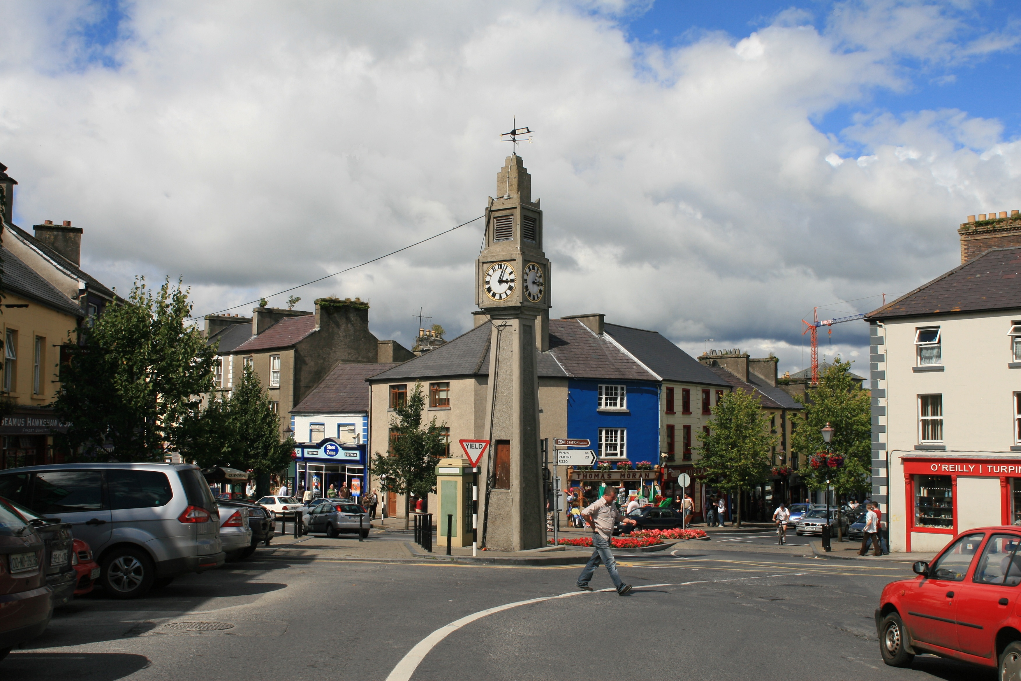 Westport, County Mayo, Ireland Clock Tower, erected in 1947 on the site of a former fountain, as seen from the High Street. On the left, the entrance to the Shop Street is to be seen, right from the Clock Tower is the upper end of the Bridge Street.